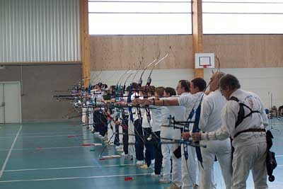 Indoor archery competition at La Charite sur Loire